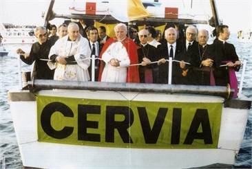 John Paul II during the Marriage of the Sea ceremony in Cervia, Italy (11 may 1986)